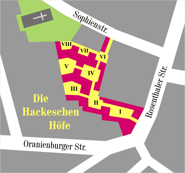 Map of the "Hackesche Höfe" (Hacke's courts) in Berlin